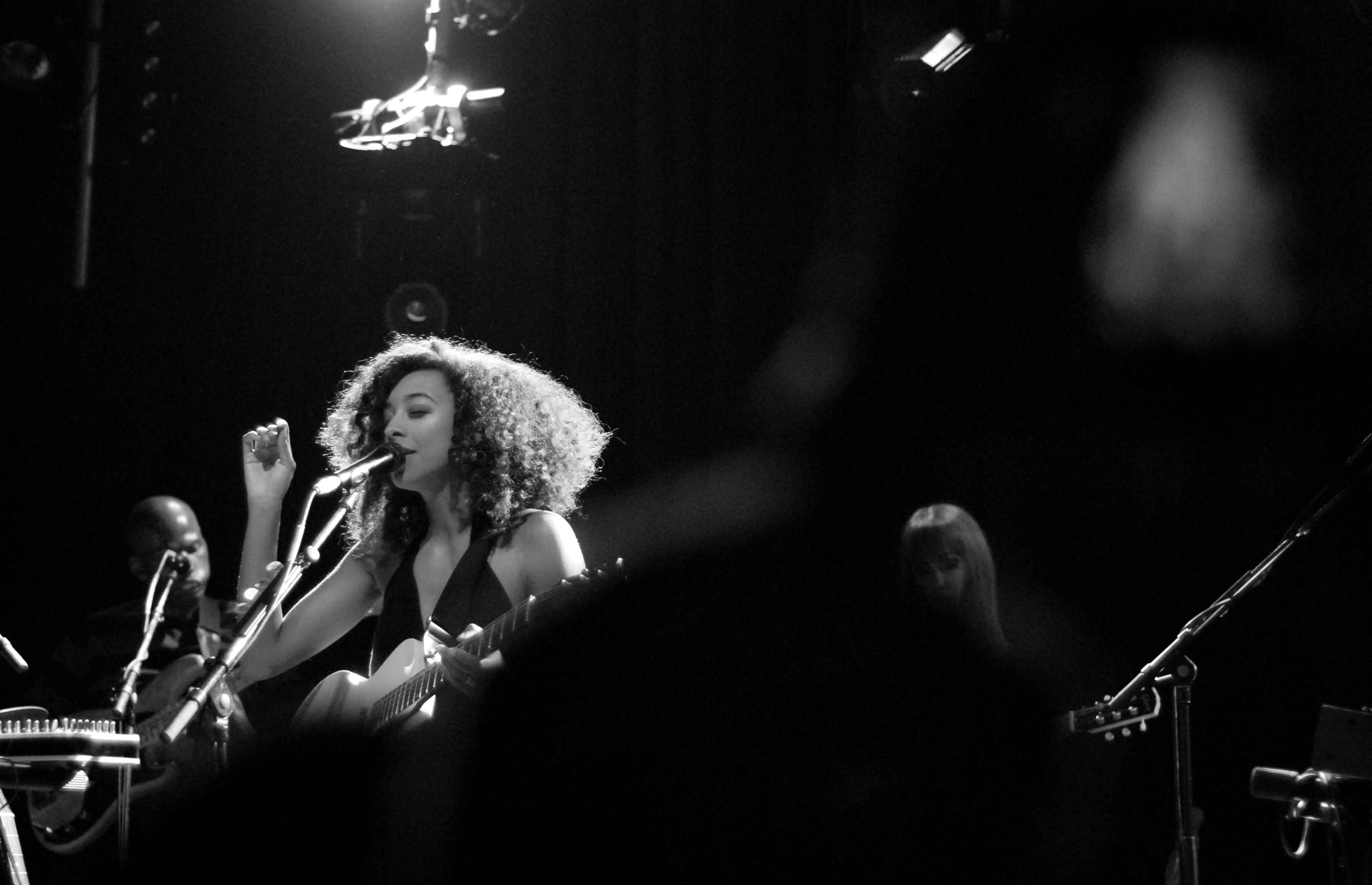 Corinne Bailey Rae performing at Le Divan du Monde, January 12, 2010.